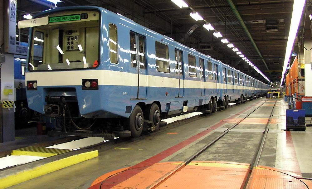 A MR-63 Montréal Métro train in the Beaugrand maintenance facility.